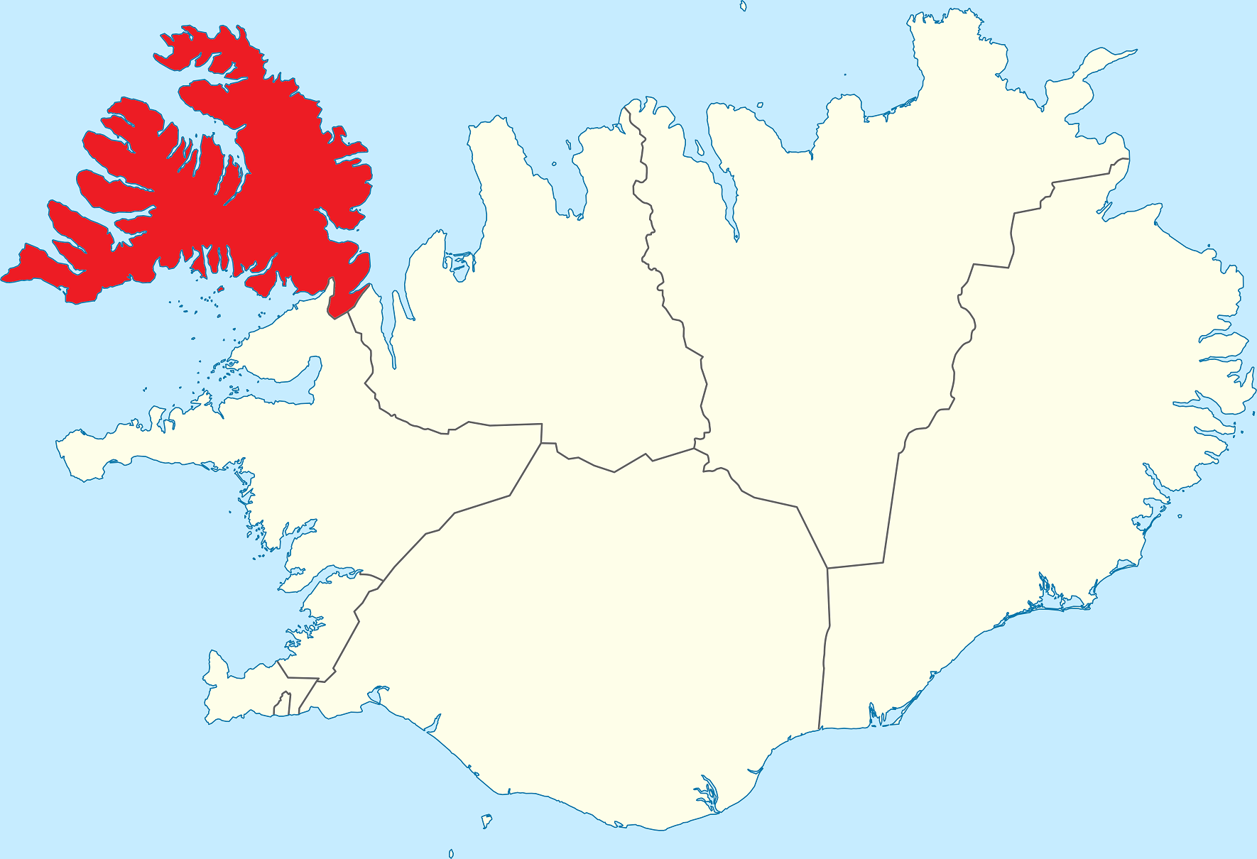 Region highlighted within Iceland as a whole.